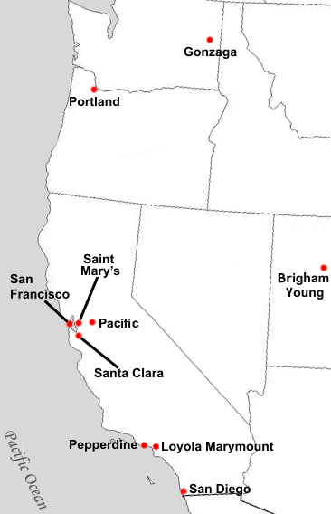 Locations of West Coast Conference full member institutions. Personal creation in Photoshop; All rights released to the public to do whatever they want with it.